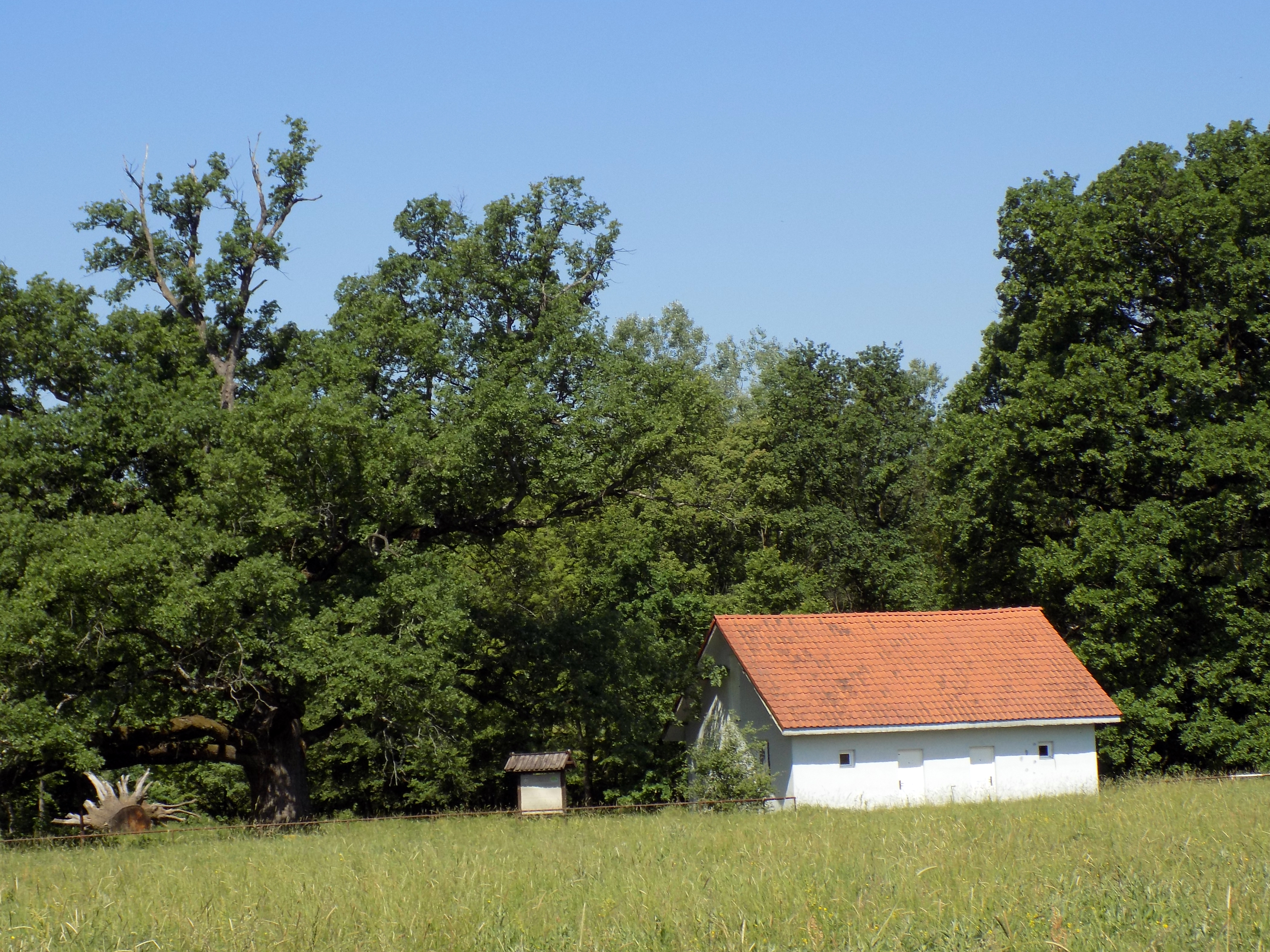 Monument of nature "Three trees of Common oaks - Bare" at a place called Bare in the village of Siljkovac (Barajevo, Municipality of Belgrade, Serbia)